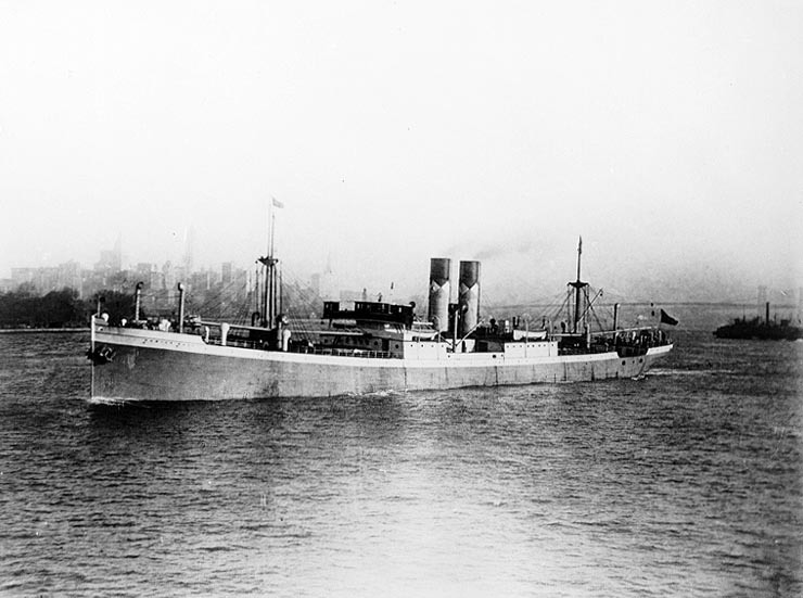 Commercial cargo ship SS Howick Hall prior to her US Navy service as USS Howick Hall (ID-1303).